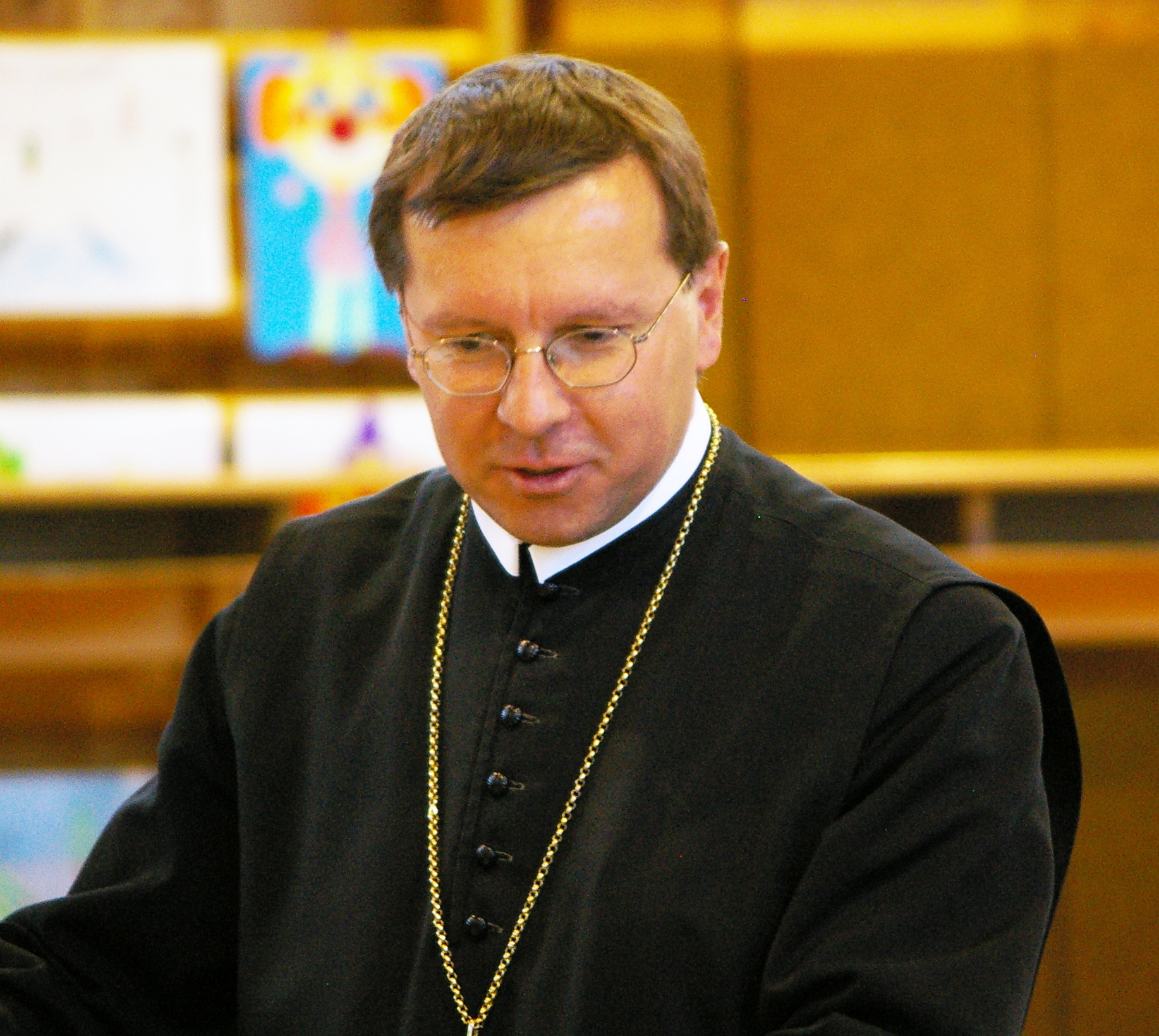 Johannes Perkmann, abbot of Michaelbeuern abbey